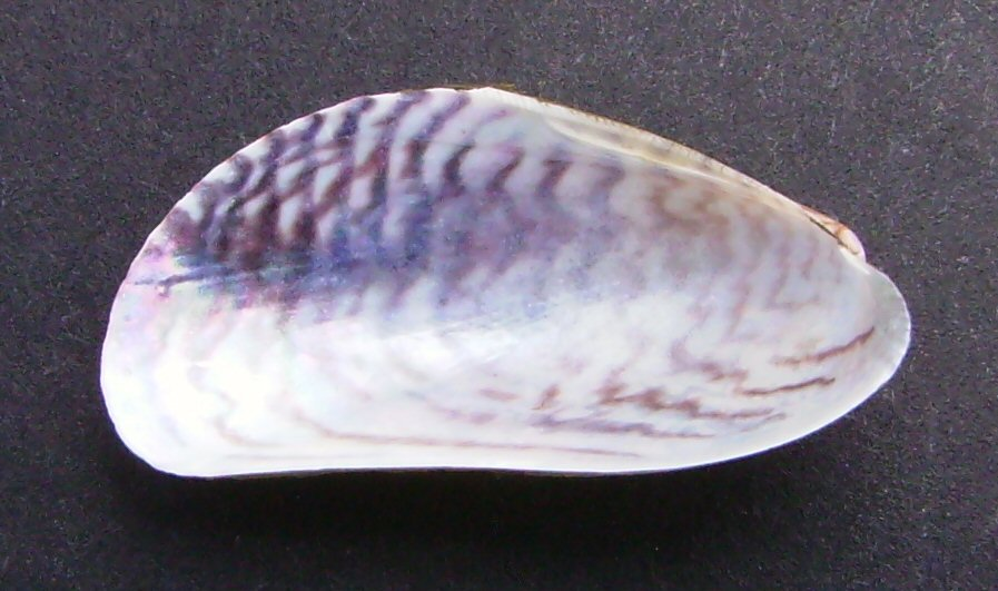 Musculista senhousia (Asian mussel) inside, from Auckland, New Zealand. This work has been released into the public domain by its author, Graham Bould. This applies worldwide.In some countries this may not be legally possible; if so:Graham Bould grants anyone the right to use this work for any purpose, without any conditions, unless such conditions are required by law.